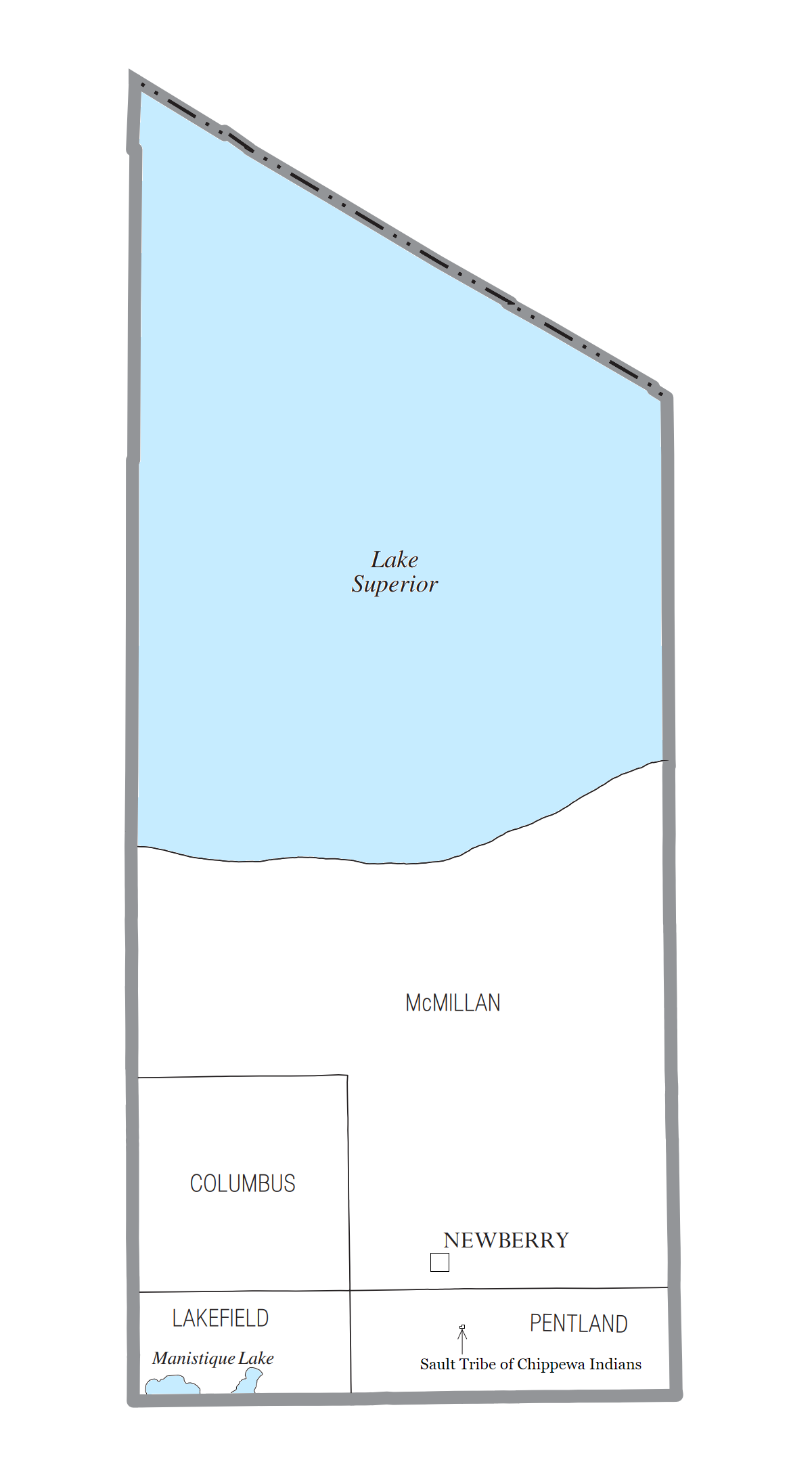 Luce County, MI census data map